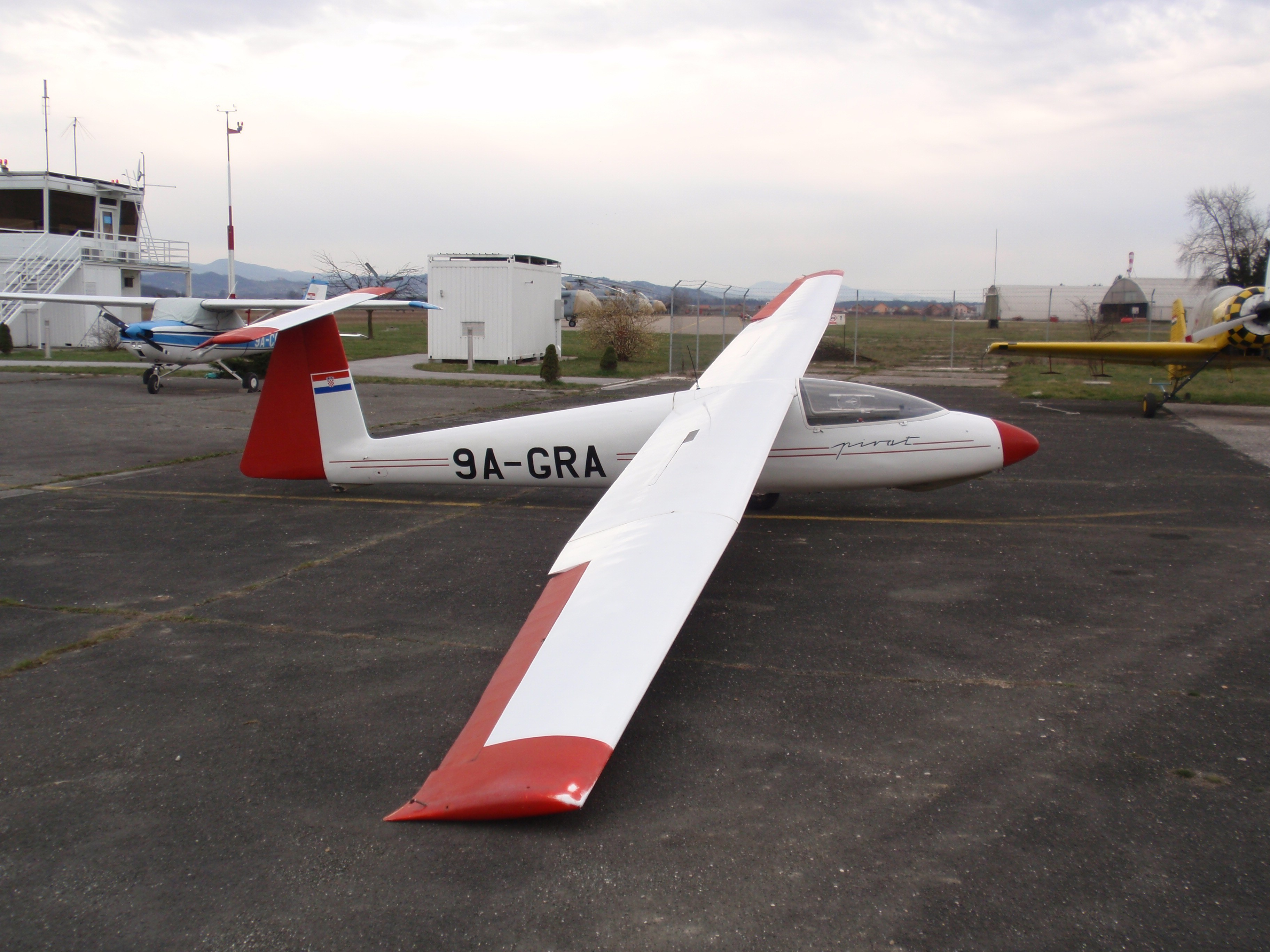 Aeroclub Zagreb: Pirat SZD-30, (9A-GRA)